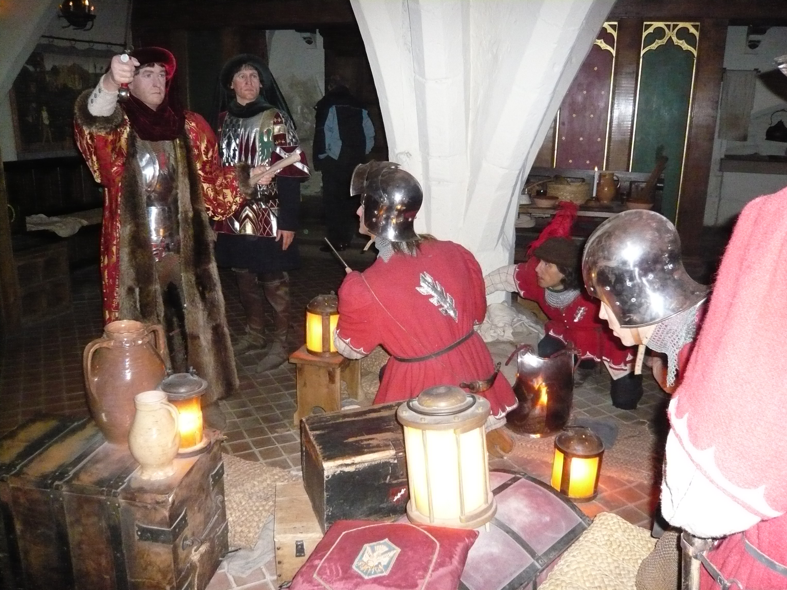 Warwick castle